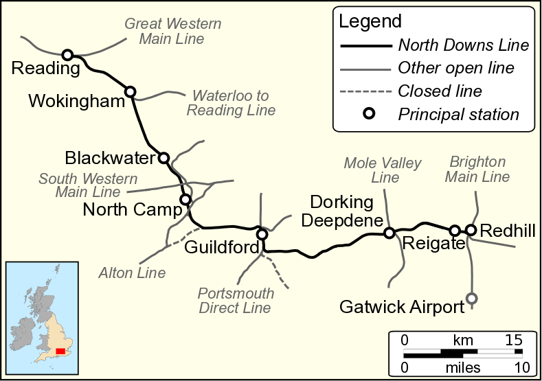 Map of the North Downs Line. A railway line linking Reading (Berkshire) to Redhill (Surrey) in south east England. Map data from Open Street Maps.